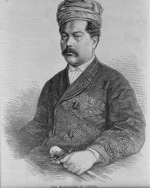 Temenggong (Maharaja) Abu Bakar of Johor. Even though the National Archives website declared that its works are protected under copyright [1], works that have lapsed at least 50/70 years or more (depending on the country). See pg 81 of [2]. Also, considering that Johor(e) was an Unfederated Malay State under British tutelage, the PD-British Gov copyright laws qualify for this image, and for any image for that matter; photograph taken more than 100 years ago.